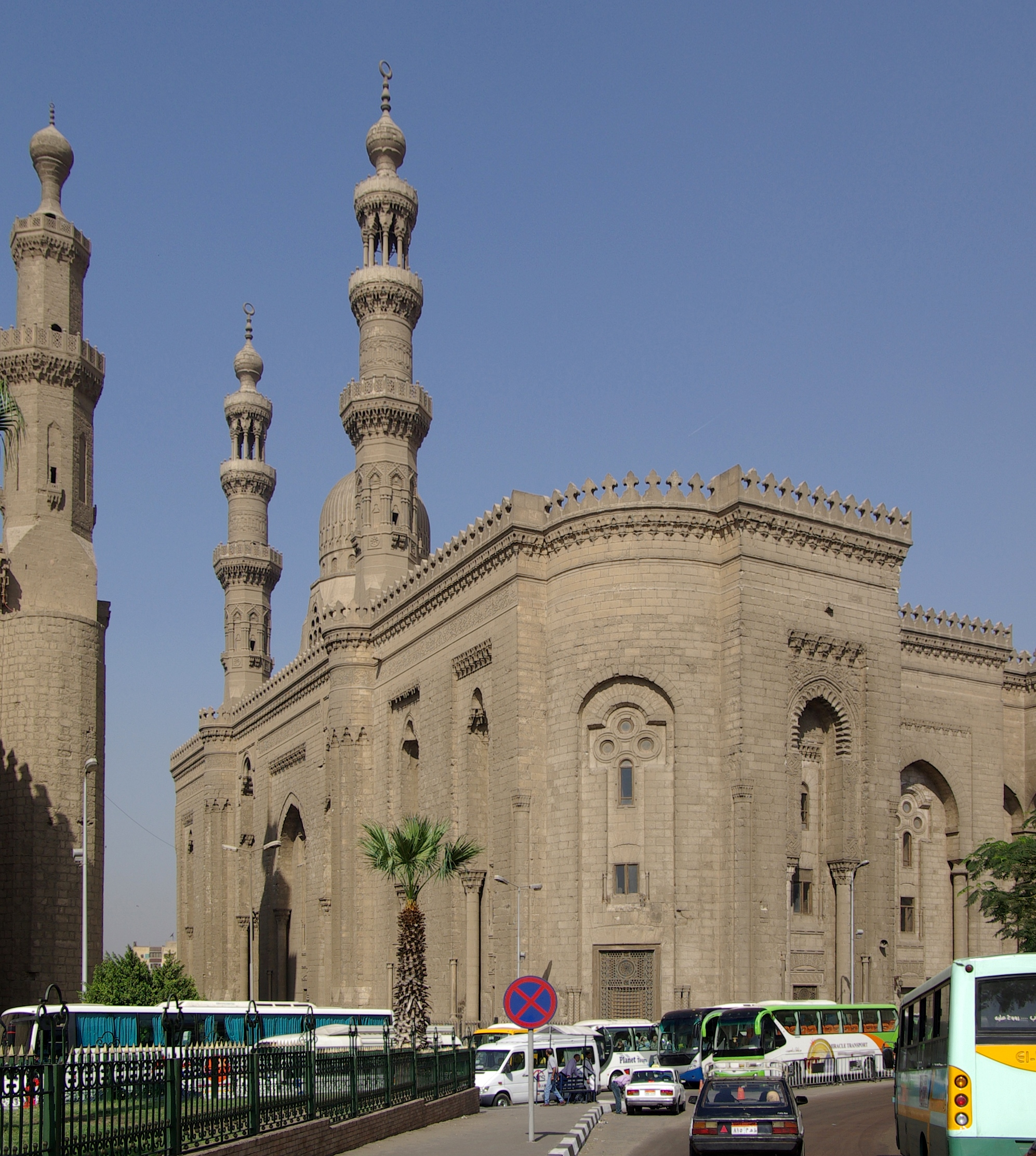 Cairo, Al-Rifa'i Mosque